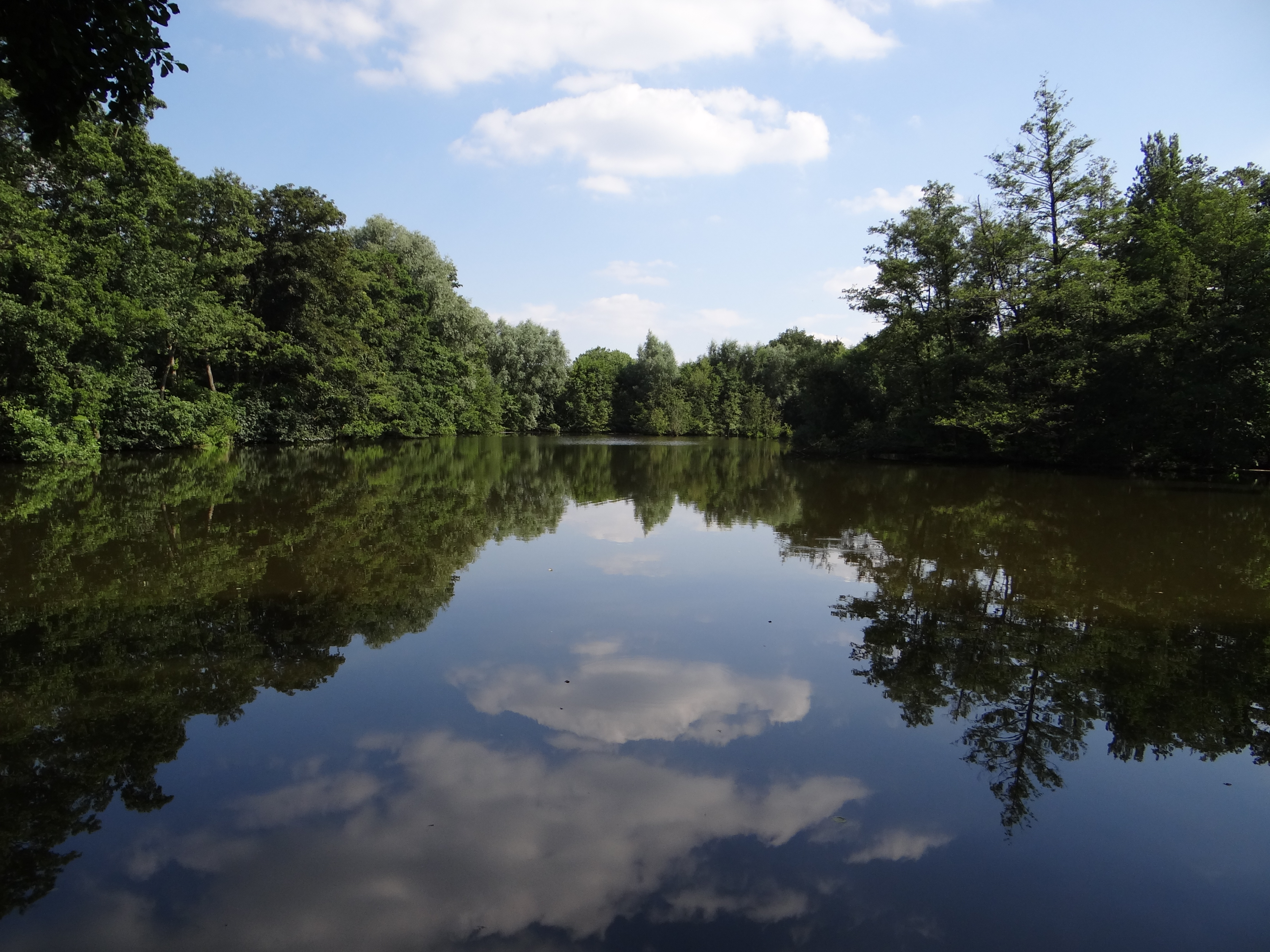 "Niepkuhlen" in the "Niepkuhlen" landscape protected area in Krefeld, Germany